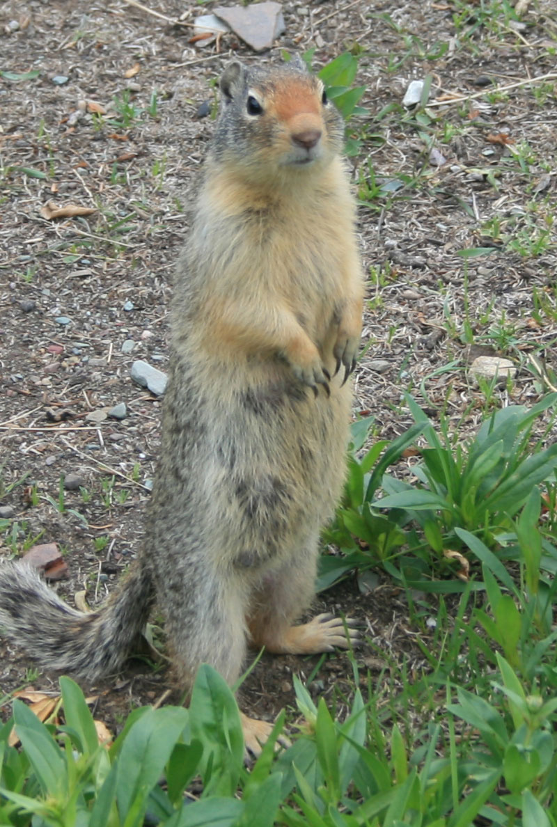 Columbian ground squirrel (Spermophilus columbianus) outside of camp store at Two Medicine Lake, Glacier National Park, Montana.